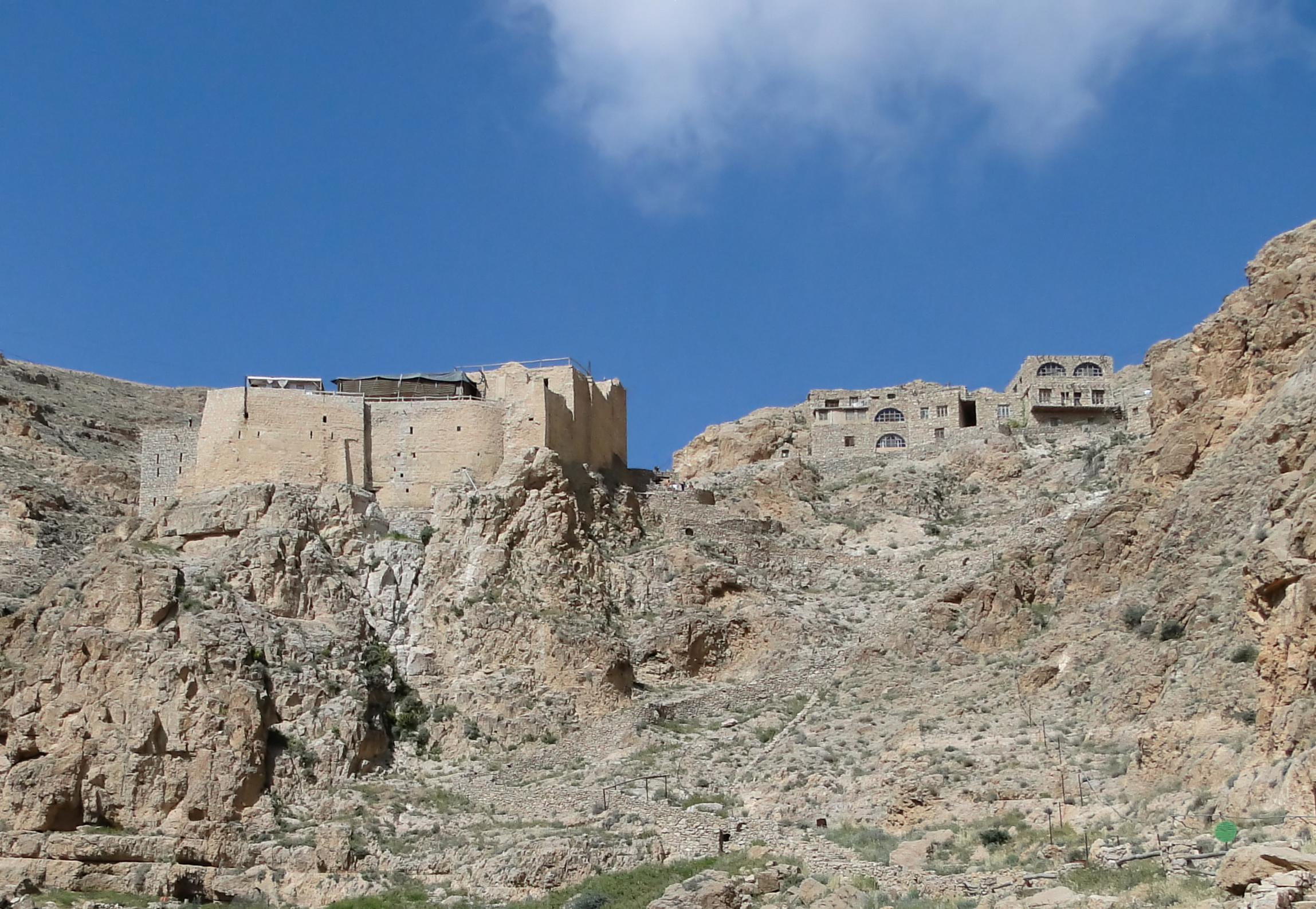 View of Deir Mar Musa al-Habashi or Monastery of Saint Moses the Abyssinian, Syria